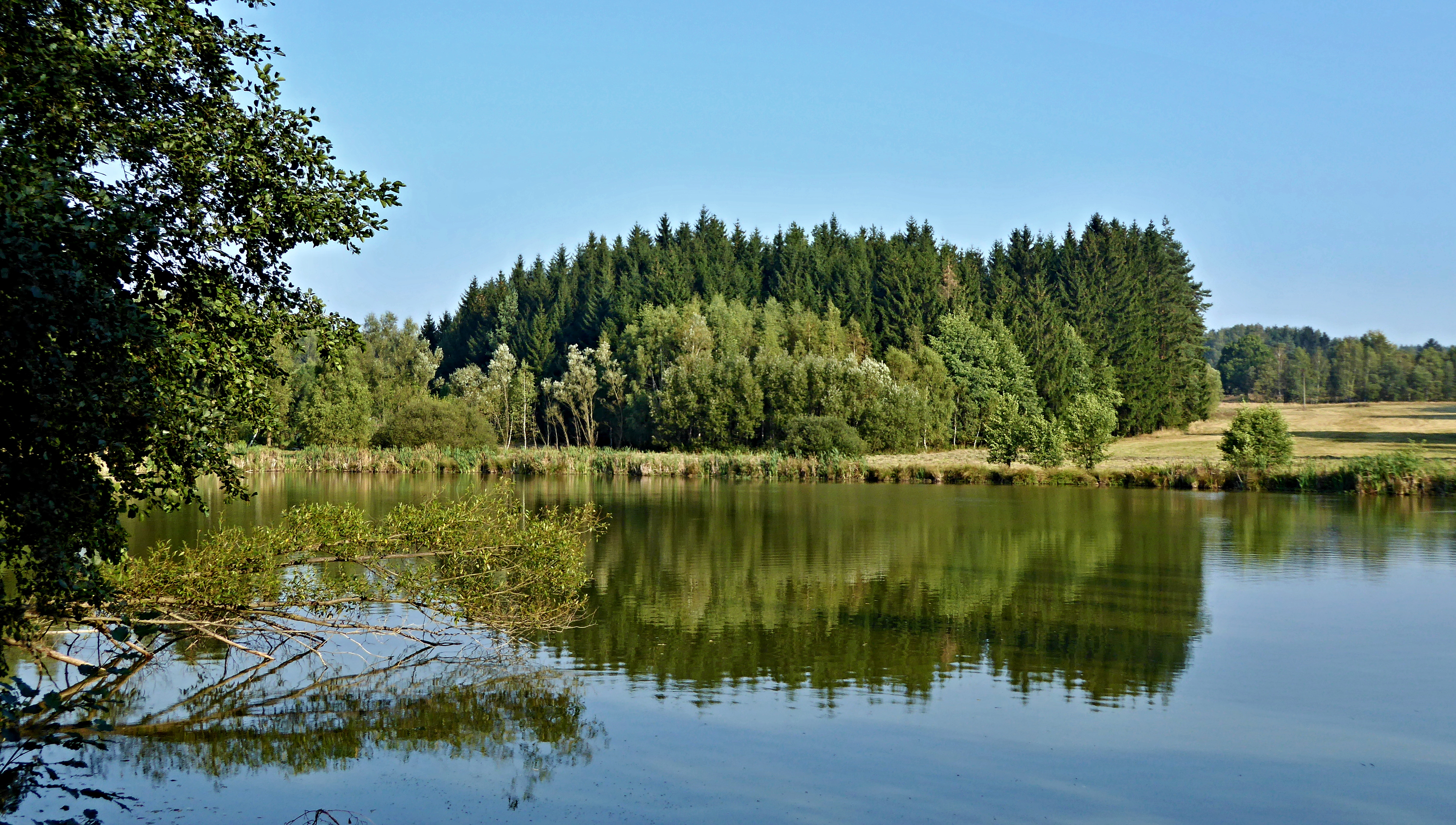 "Dolní ratajský" pond is the geographical name of a water reservoir with localed named " Dolní Rataják". The pond has an area of 1,3358 ha and was built in 1910 in the landscape area of "Kameničská" Highlands on the cadastral territory of Hlinsko in the Chrudim district belonging to the Pardubice Region in the Czech Republic. The water reservoir is part of a ponds-system with name "Ratajské" ponds, also of nature monument and of European-important locality of the same name. Ponds are used for fish farming. The location is located in the Protected Landscape Area "Žďárské" hills. Photo location: Czechia, Pardubice Region, town Hlinsko, "Dolní ratajský" pond (photo azimuth 60°), "Kameničská" highlands.